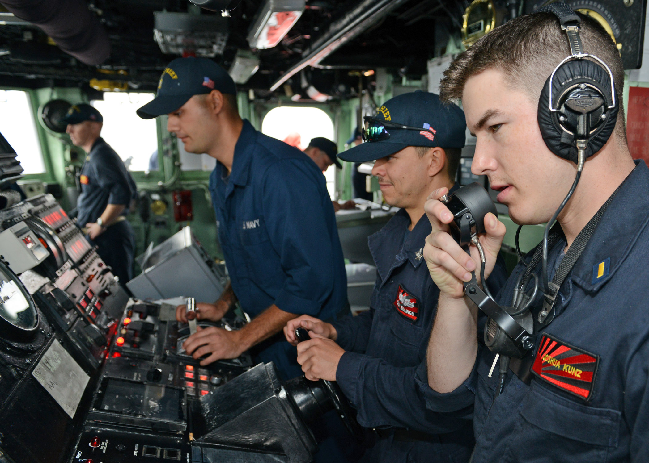 U.S. Sailors man the bridge aboard the mine countermeasures ship USS Chief (MCM 14) while preparing to release underwater training mines in the East China Sea Oct. 20, 2014, in support of exercise Clear Horizon 2014. Clear Horizon is an annual bilateral exercise between the U.S. and South Korean navies designed to enhance cooperation and improve capabilities in mine countermeasure operations.